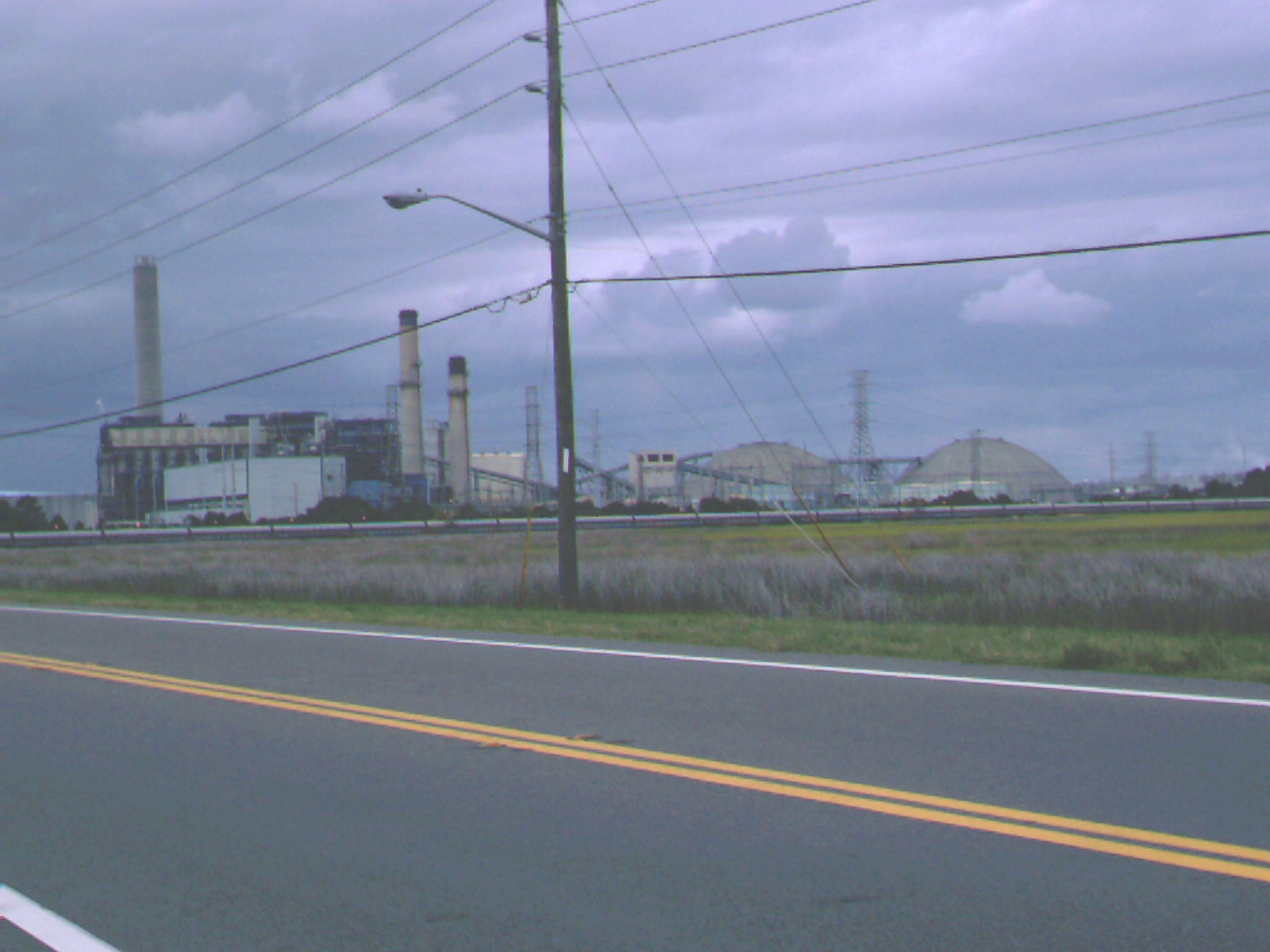 Photo of JEA Northside Generating Station in Jacksonville, Florida, taken from State Road 105, Taken while on vacation in area.